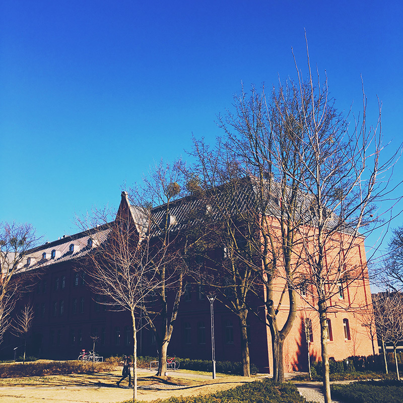 UXPin headquarters in Gdańsk